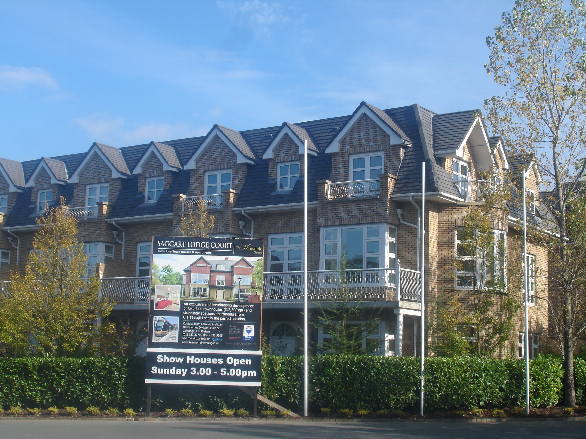 Unsold apartments in Saggart, Ireland. Picture taken by Christiaan Mulder.